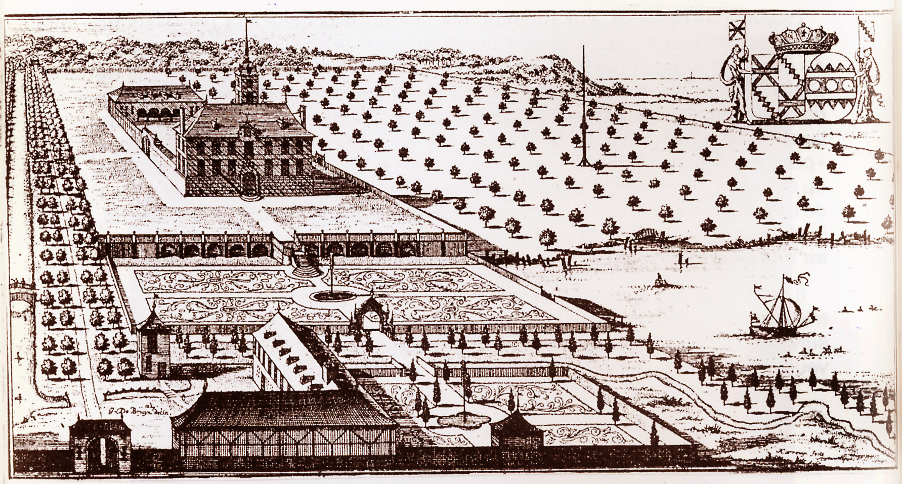 engraving 17th century